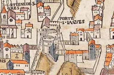 St-Jacques gate on the plan of Truschet and Hoyau (1550).